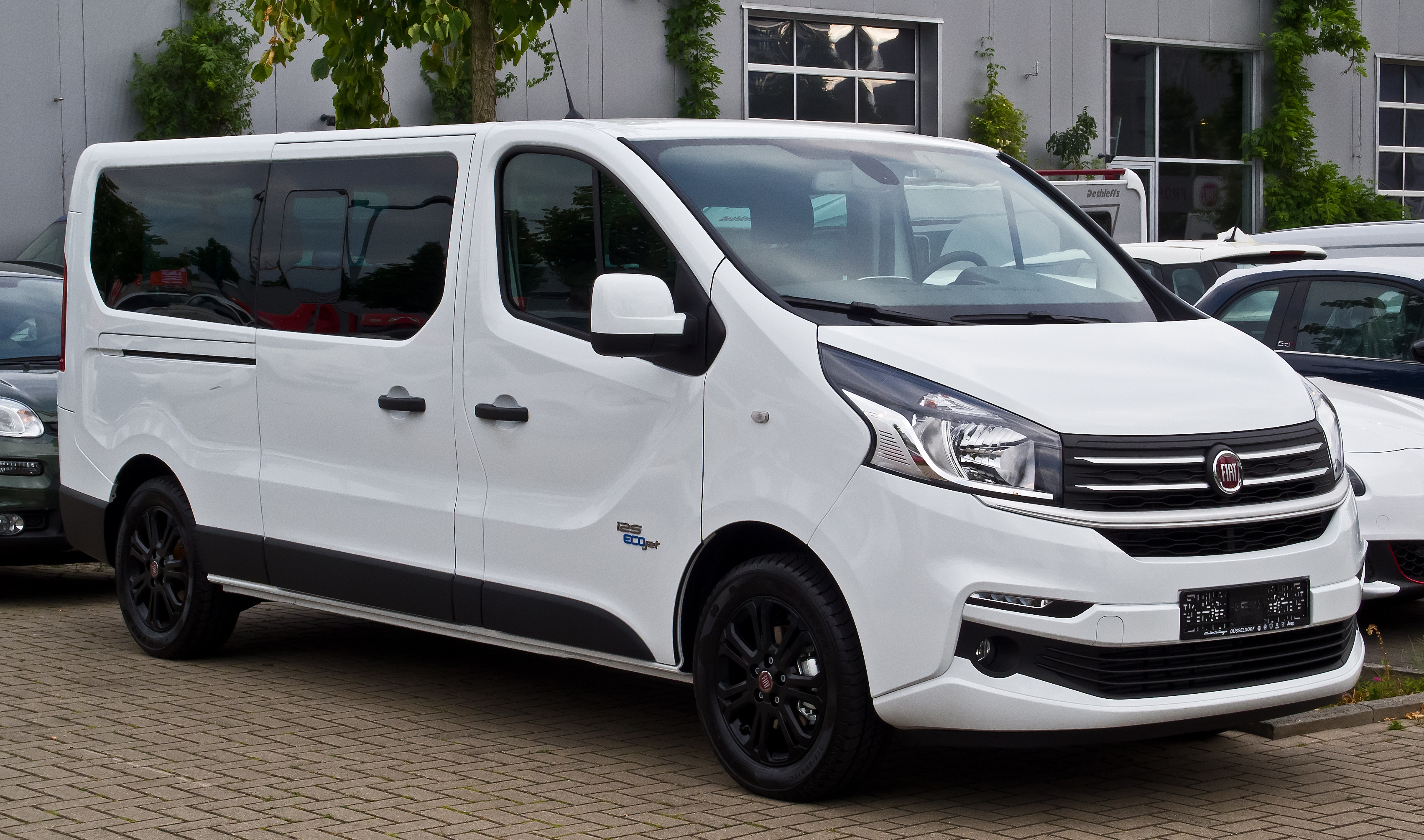 Fiat Talento Kombi 1.6 Ecojet 125 Twin Turbo Family